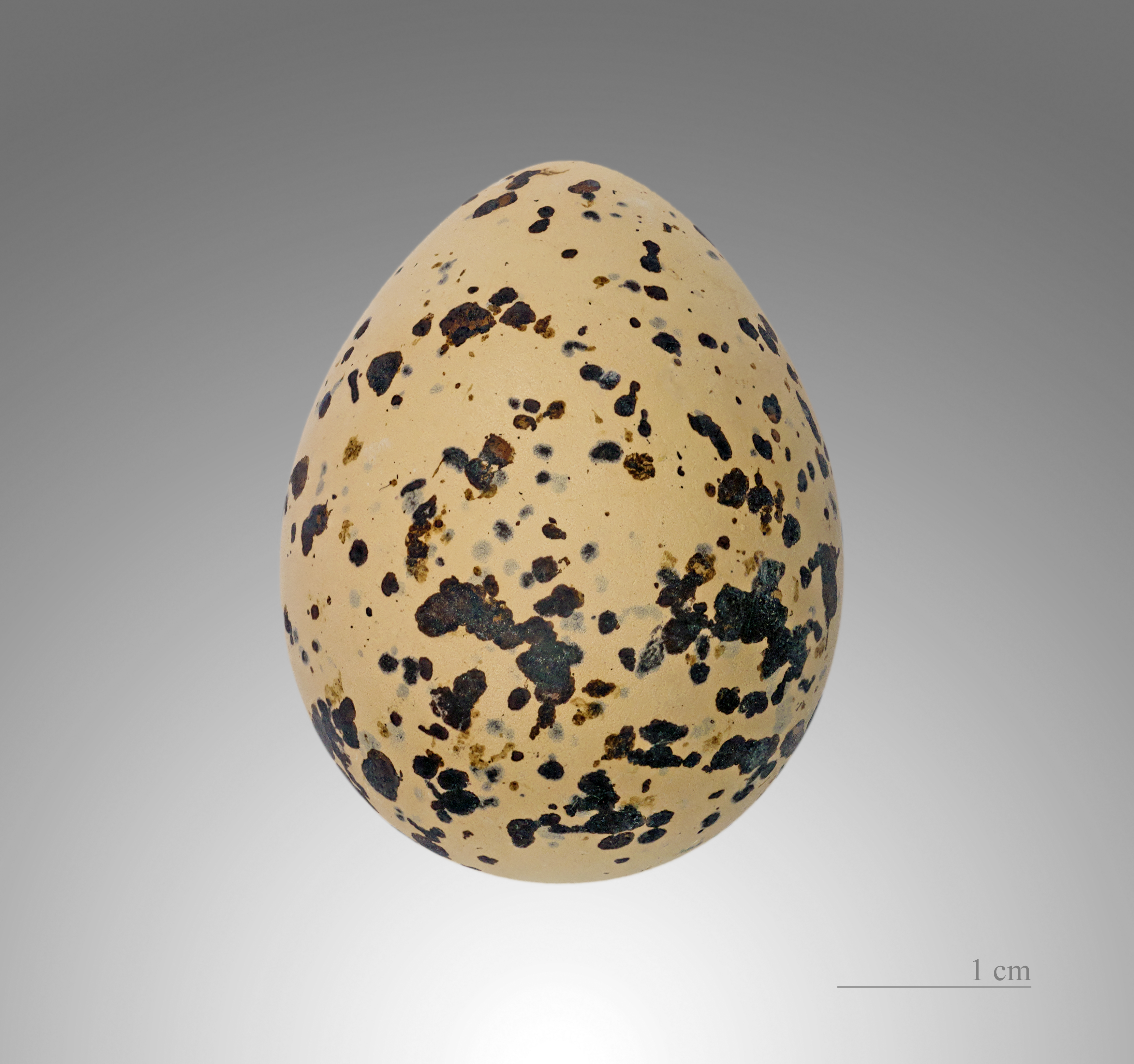 Egg of Greater Sand Plover. Collection of Jacques Perrin de Brichambaut.